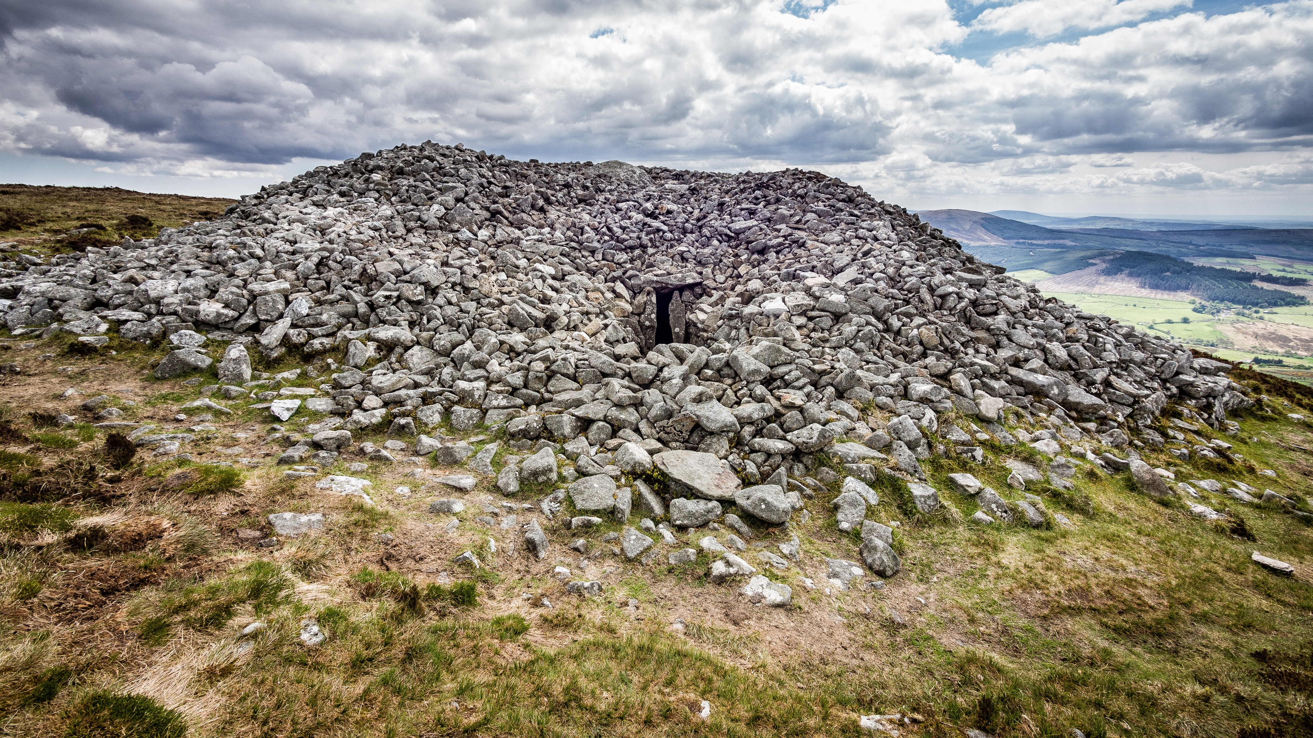 Neolithic passage tomb on the summit of Seefin Mountain, County Wicklow, Ireland. The tomb is covered by a huge circular cairn which is 24 metres in diameter, 3 metres in height and has a kerb of large boulders. A narrow passage, 11 meters in length, opens into a rectangular chamber, in which there are five recesses. Only some of the recesses are visible because the roof of the chamber has collapsed allowing the loose rock of the cairn to pour in. There is some artwork on the kerbstones but it is very indistinct. The tomb was excavated in 1931/32.